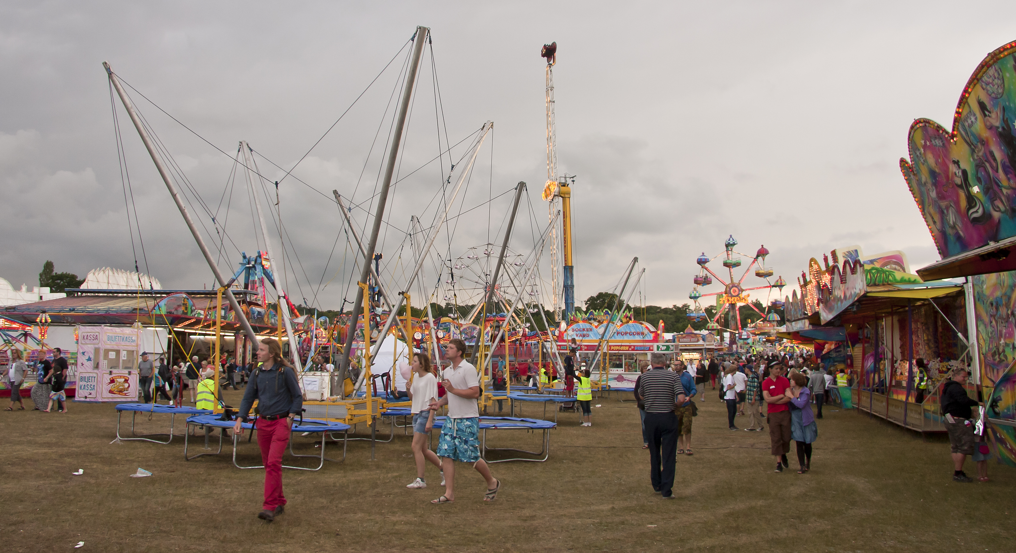 Rides at the "Kiviks marknad" fair.